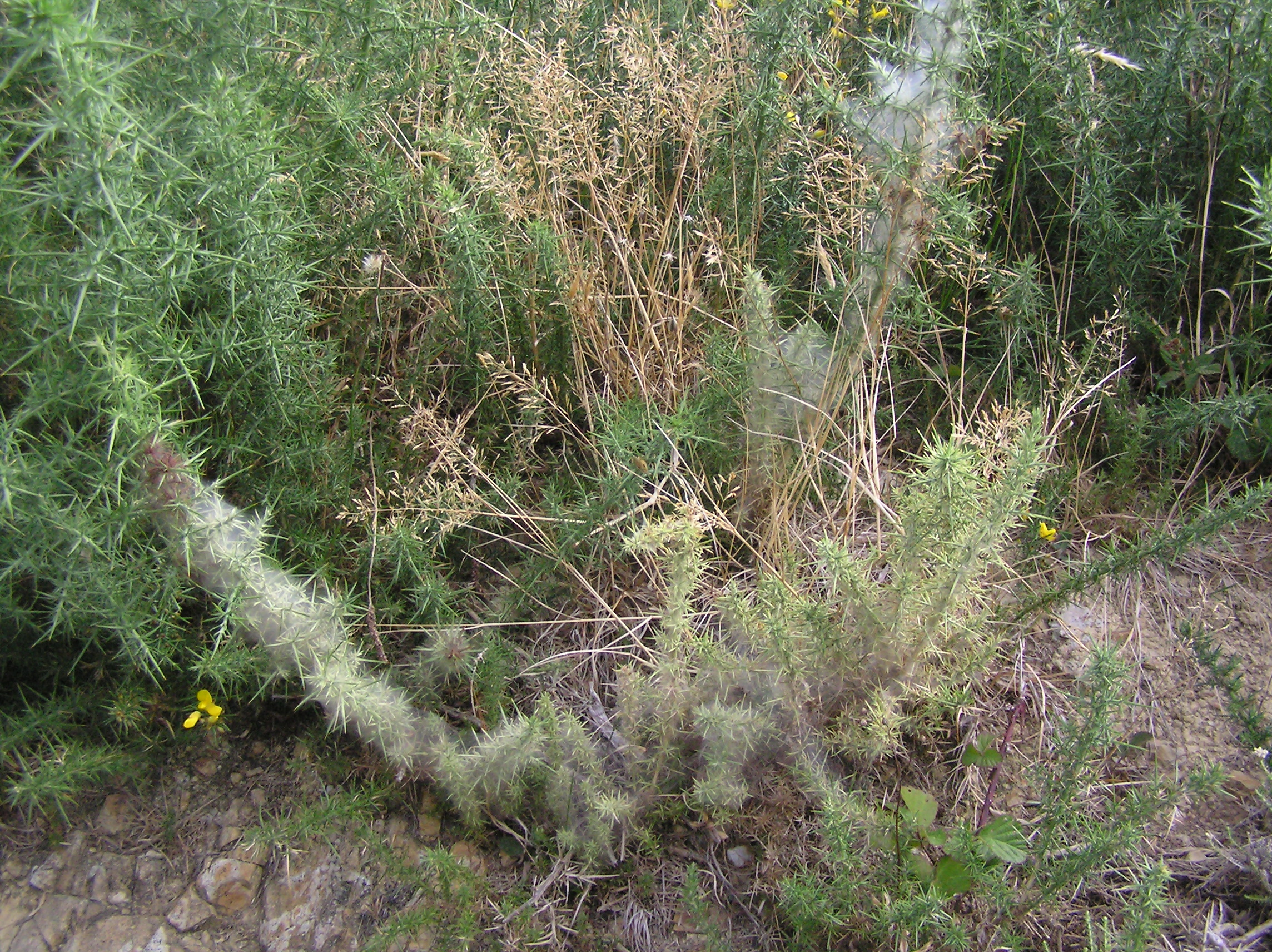 Gorse covered with what is probably the web of an introduced spider mite. Note the difference in colour of the afflicted gorse and the gorse in the background. Wellington, New Zealand.